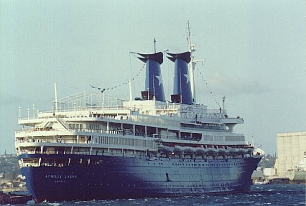 Achille Lauro)